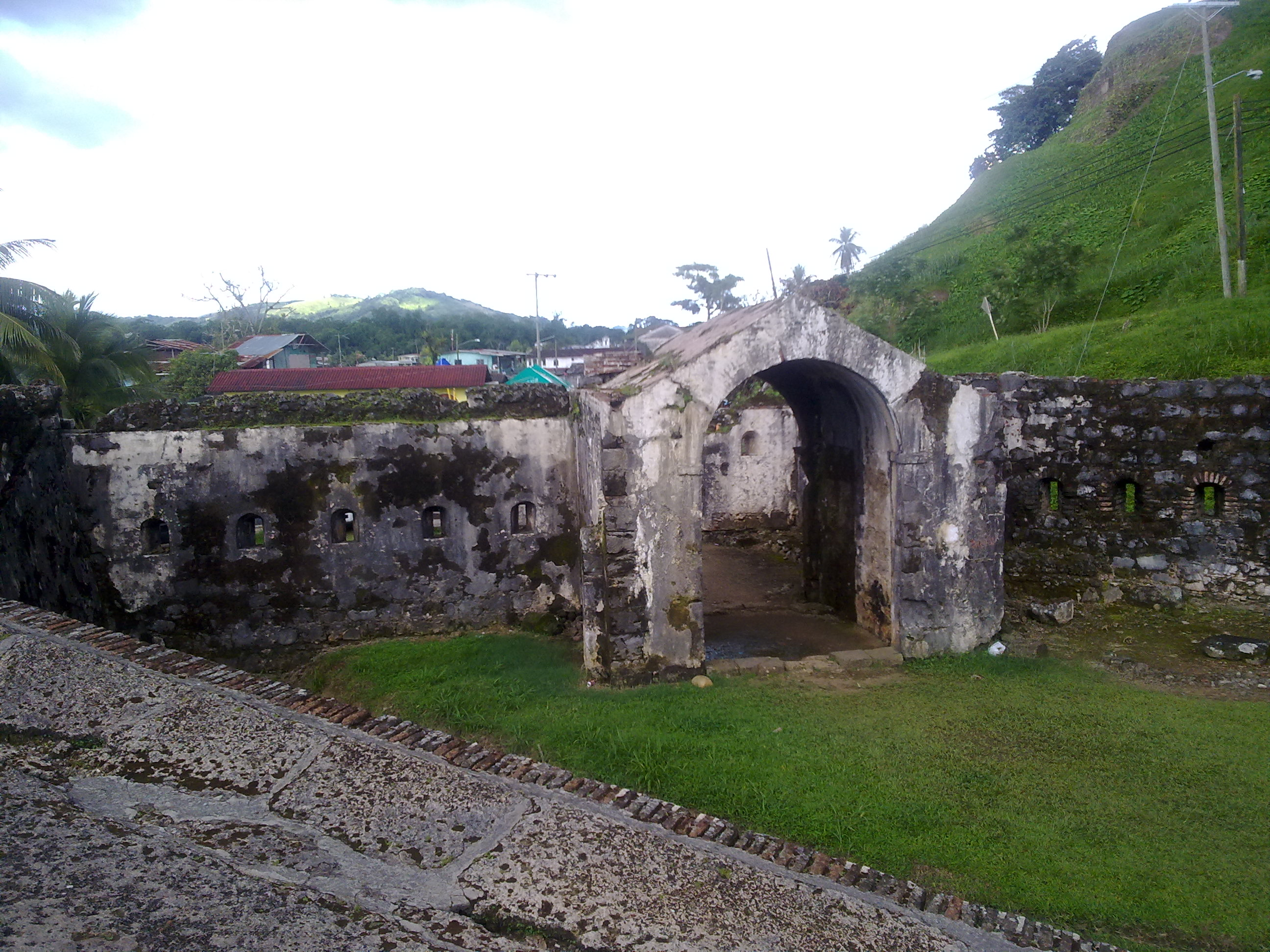 Fort San Lorenzo in Portobelo, Panama